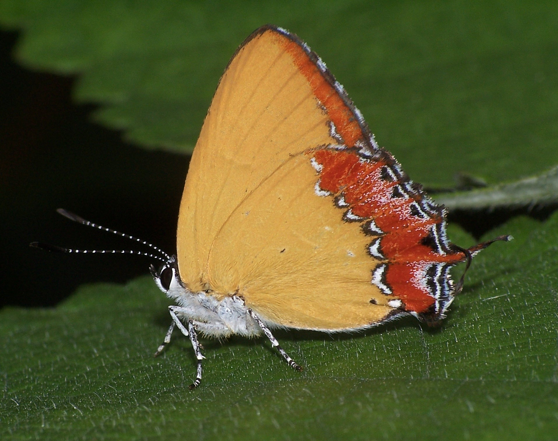 Species: Heliophorus epiclesLocation: Hong Kong